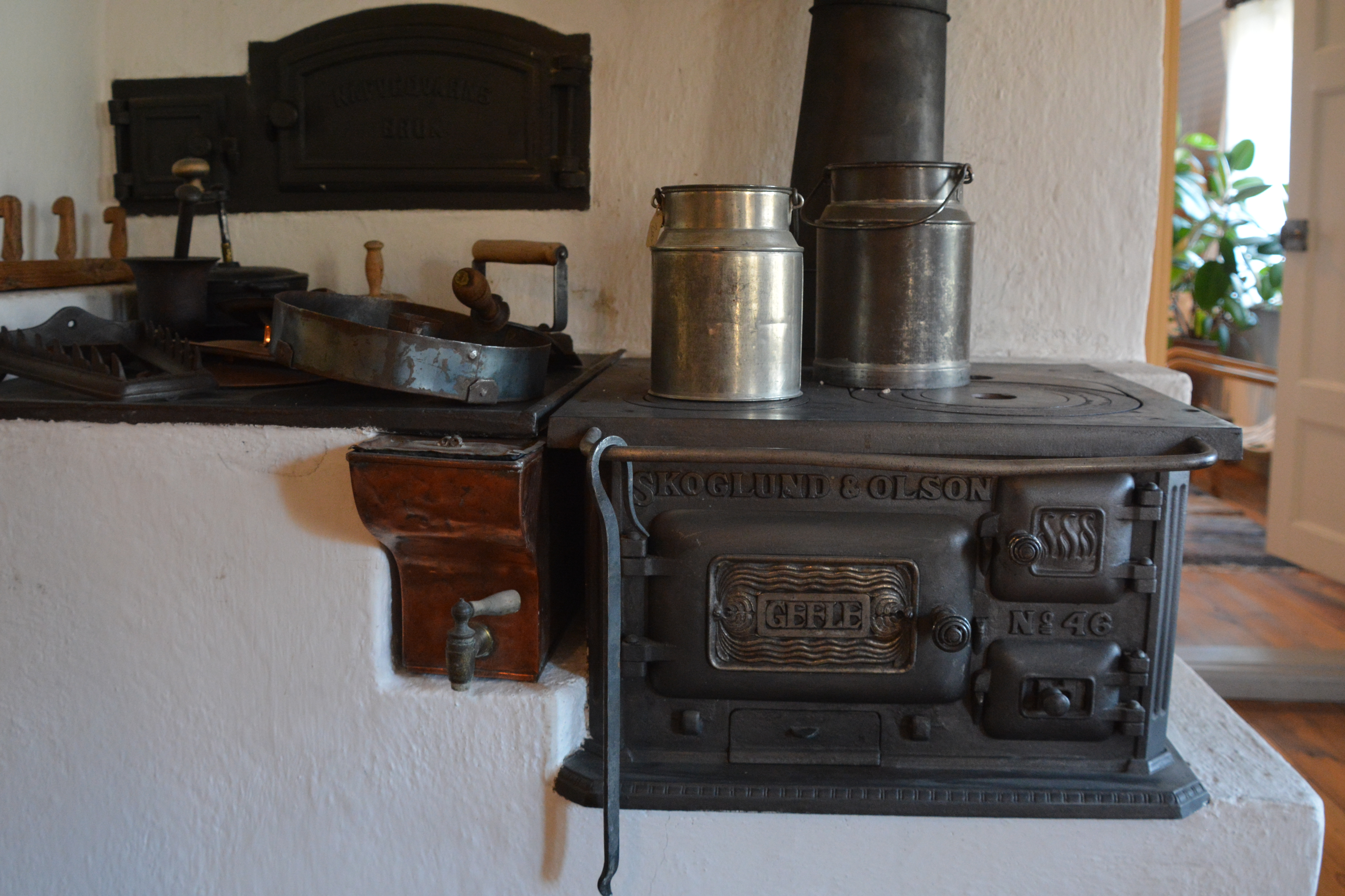 Cast iron kitchen stove från end of 19th Century, manufactured by Skoglund & Olson in Gävle, Sweden. Ställdals gård, Ställdalen.